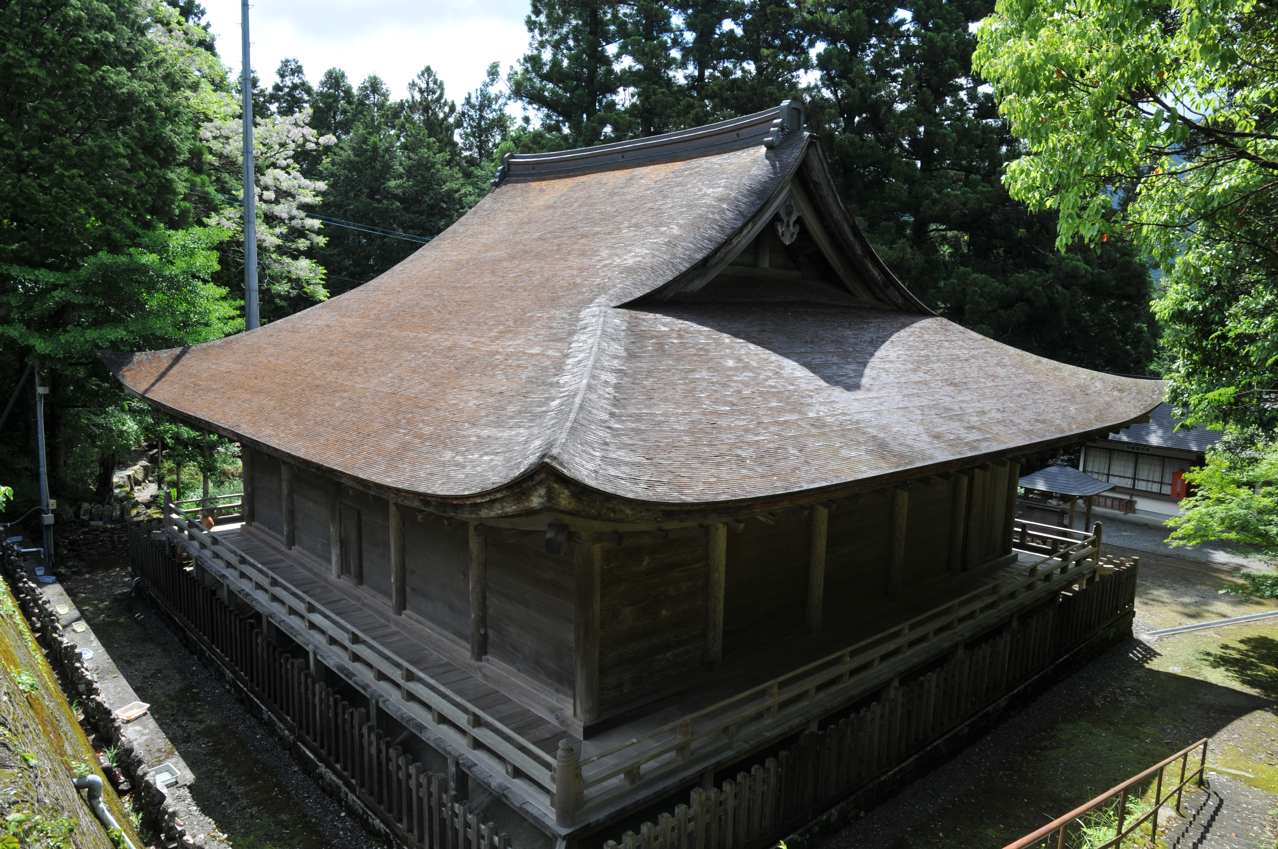 Buraku-ji Yakushi-dō(Japanese National Treasure)